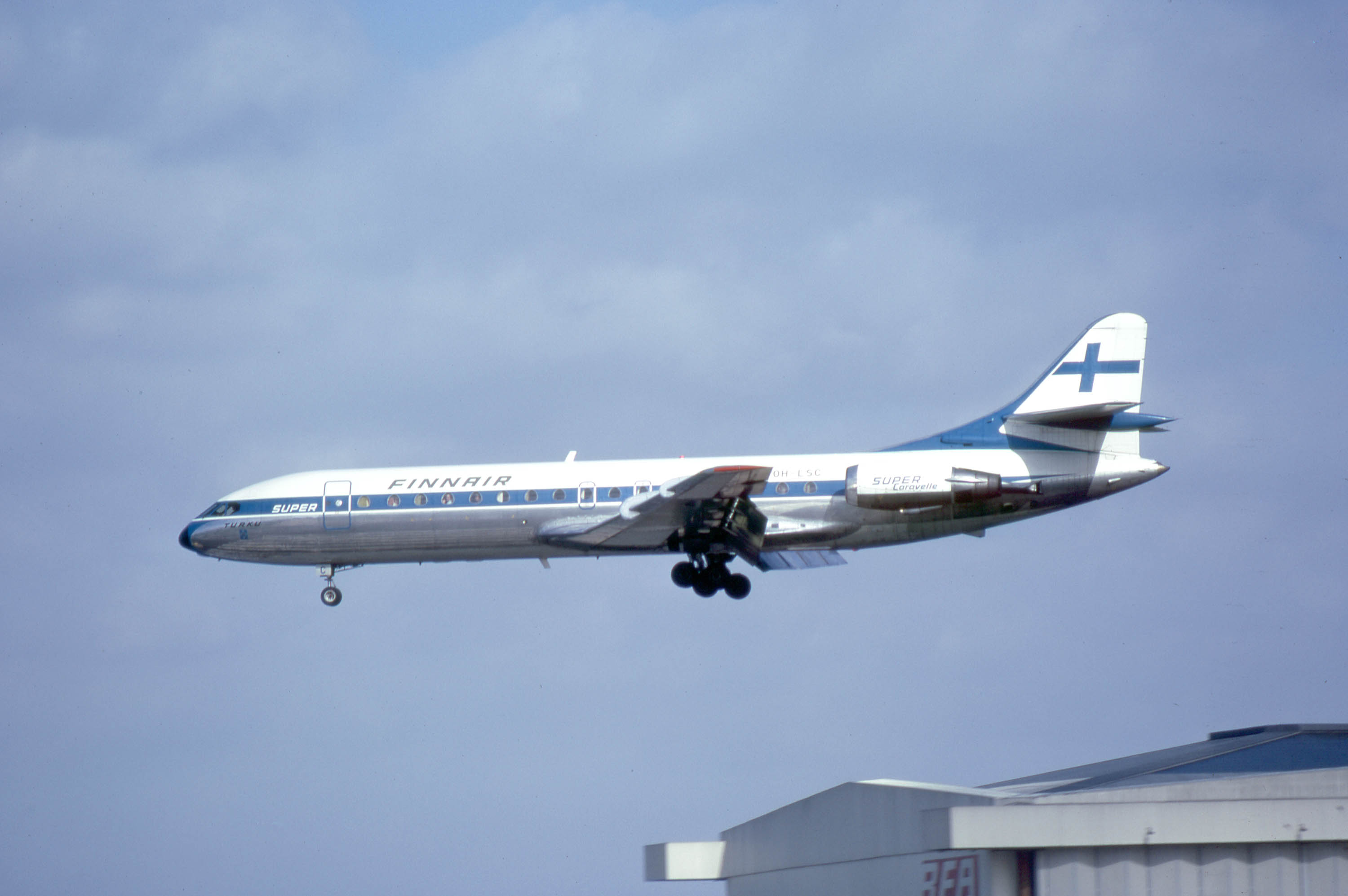 A Sud Aviation SE-210 Caravelle 10B3 Super B aircraft (OH-LSC; Turku) of Finnair at London Heathrow Airport in 1972.